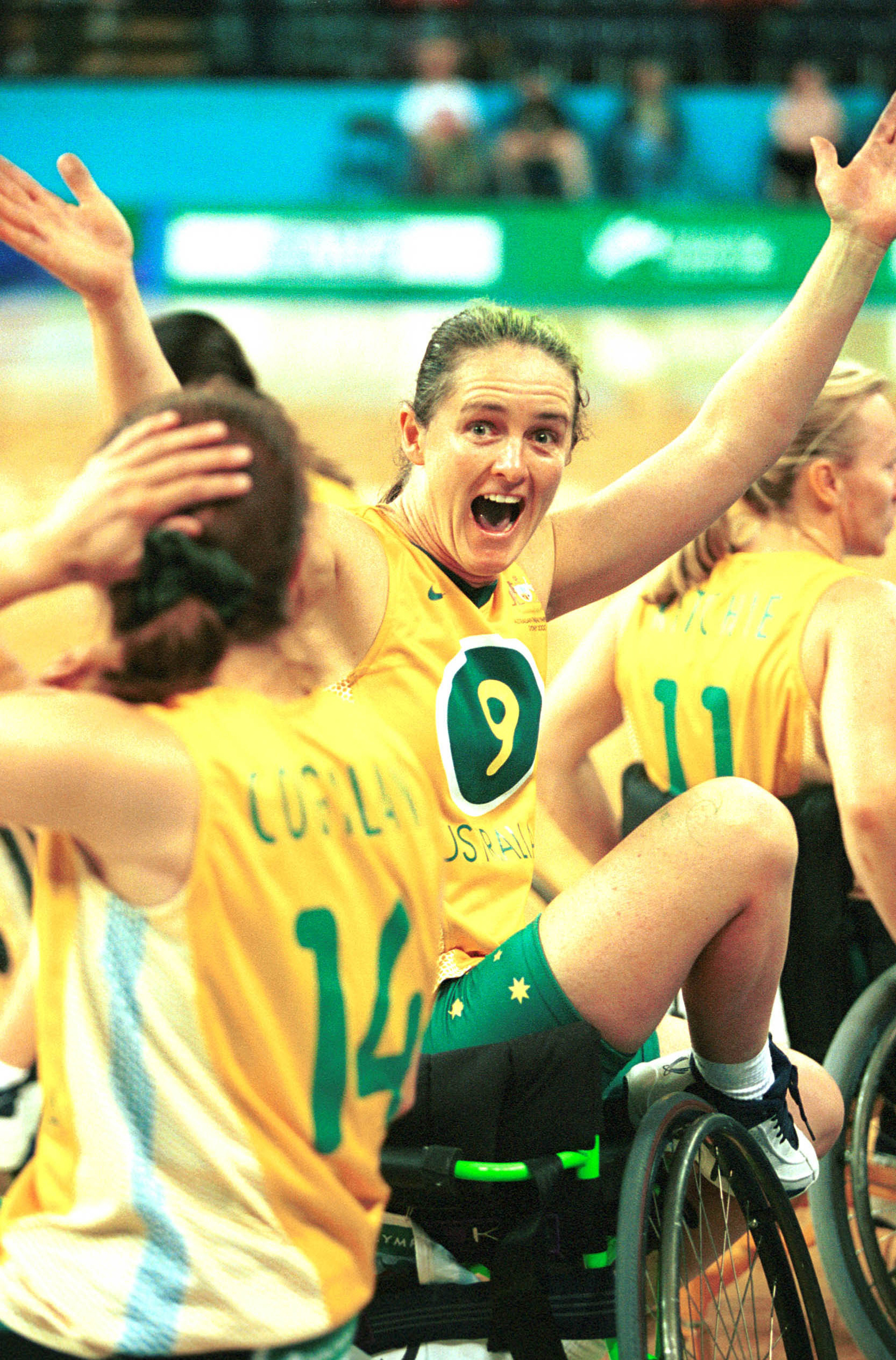 Australian wheelchair basketballer Liesl Tesch celebrates during 2000 Sydney Paralympic Games match